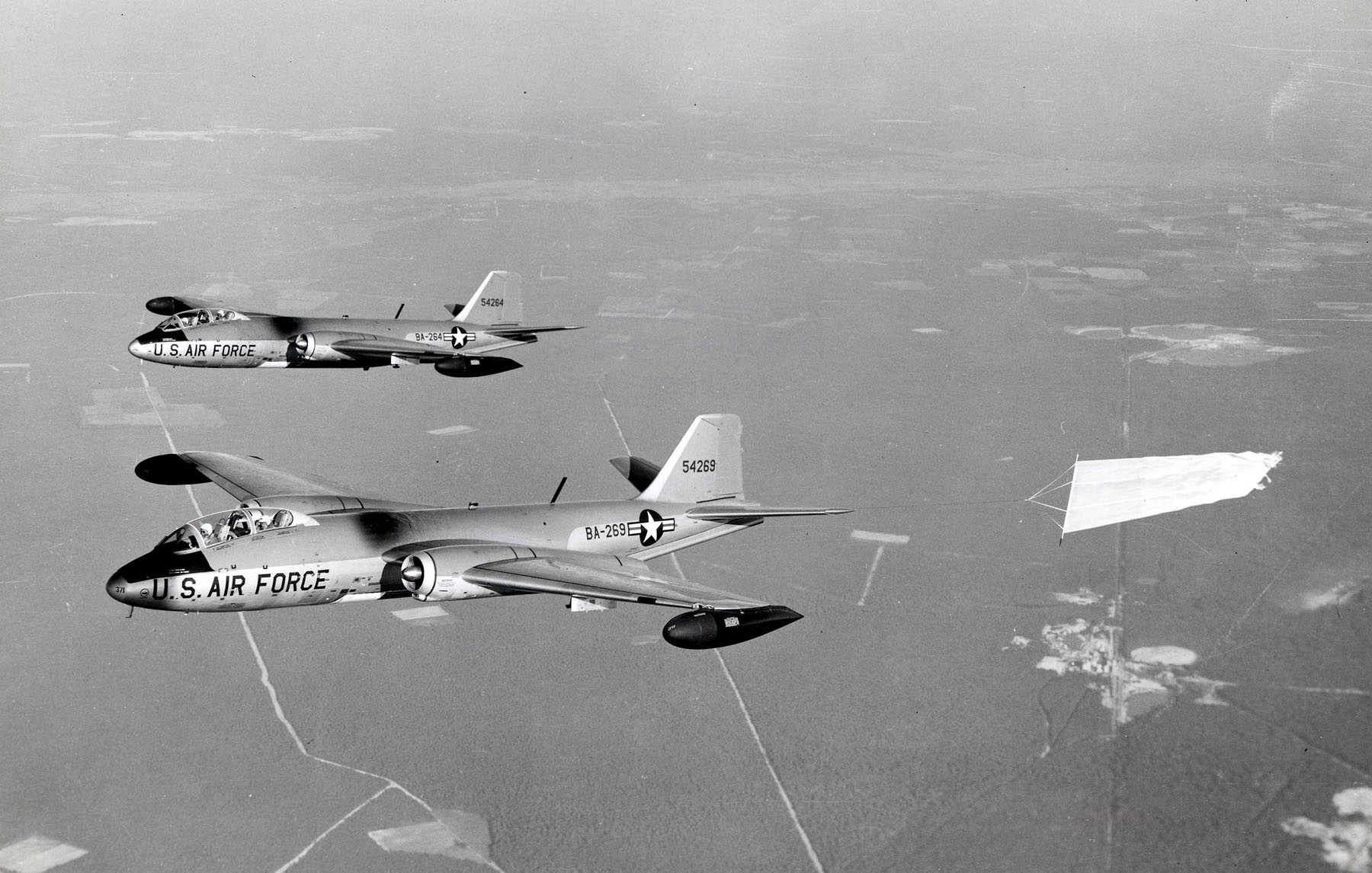 Martin B-57E Canberra in flight. Aircraft towing target is B-57E (SN 55-4269)